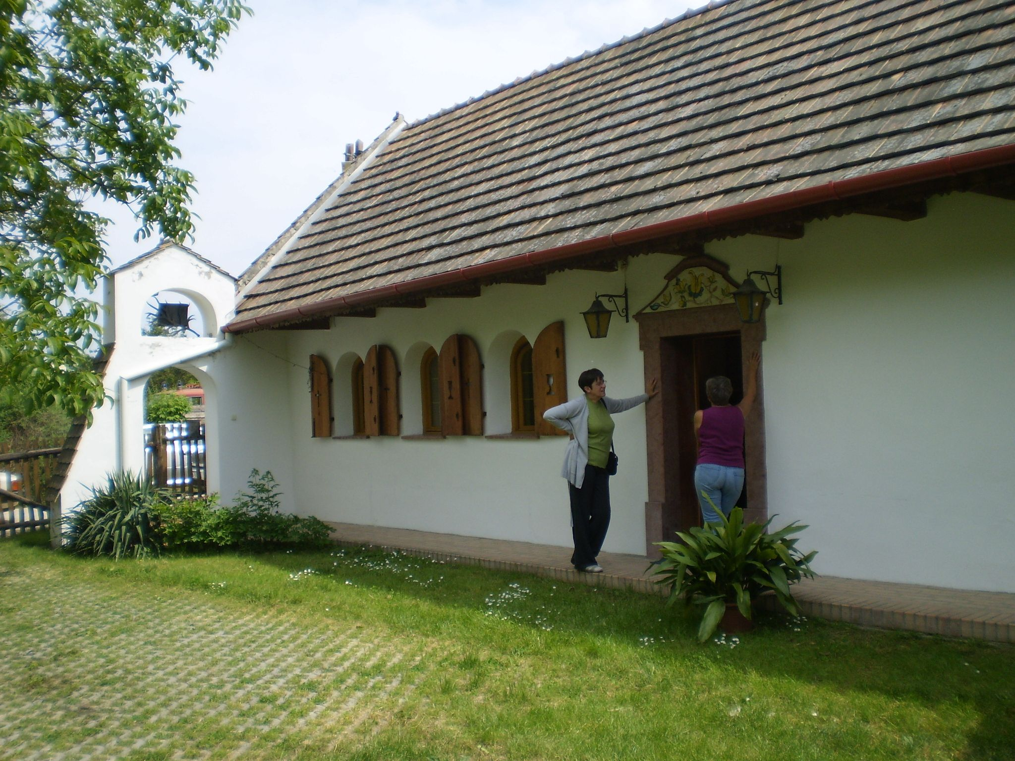 Baptist chapel in Neszmély